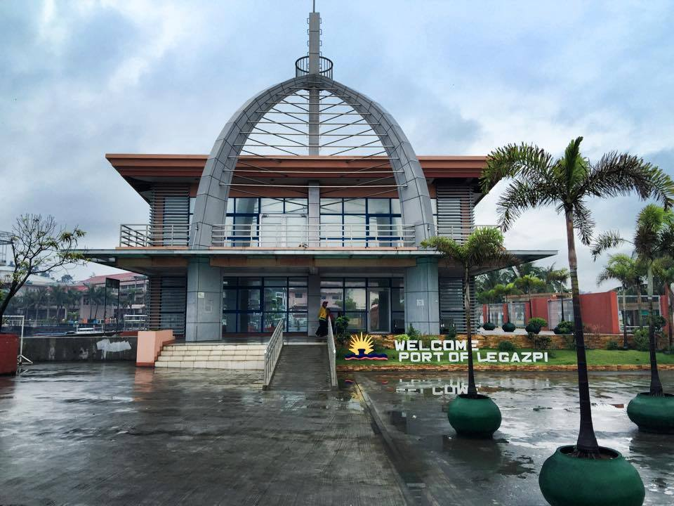 Legazpi Port Passenger Terminal